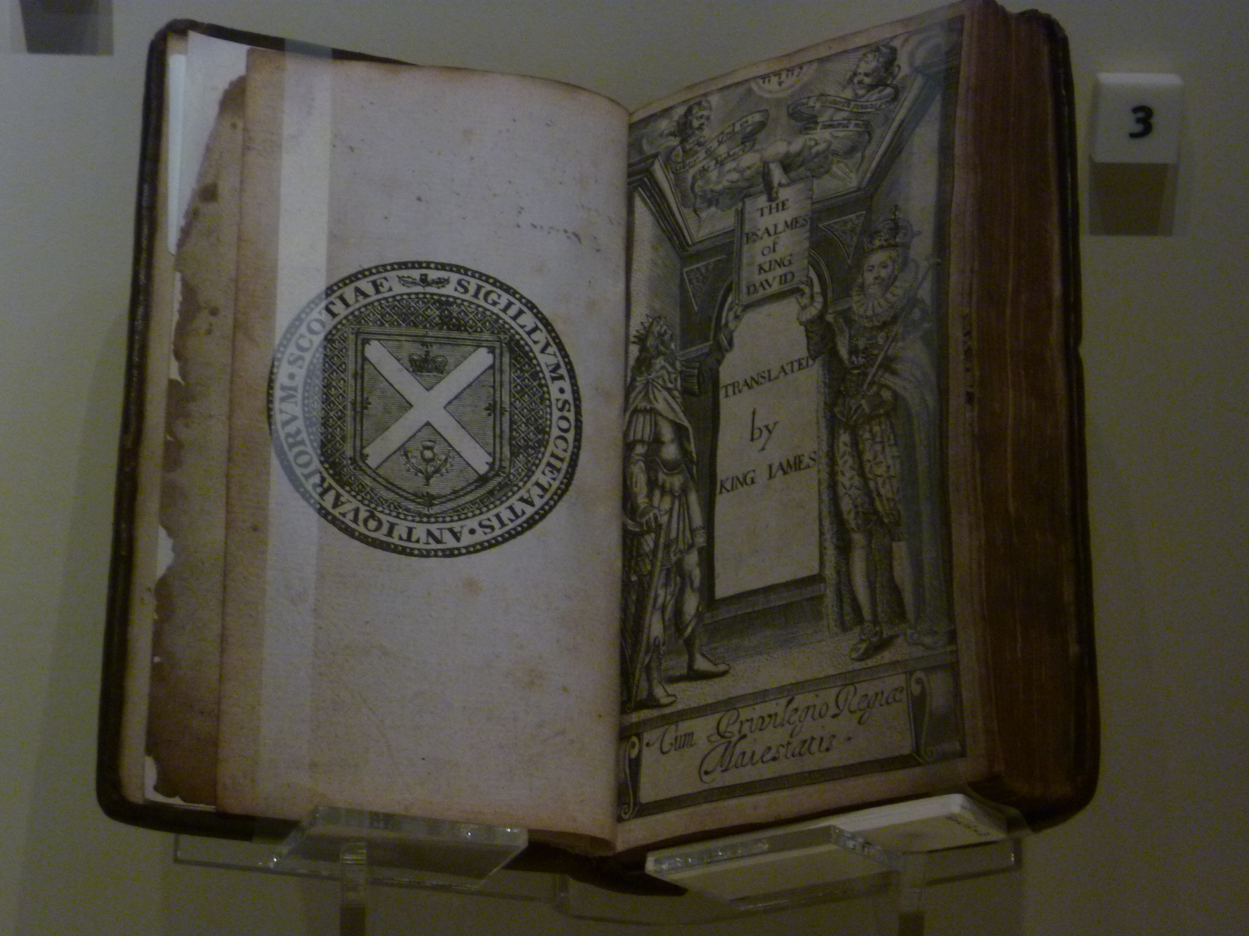 The Psalmes of King David. Translated by King James. An exhibit in the National Museum of Scotland.